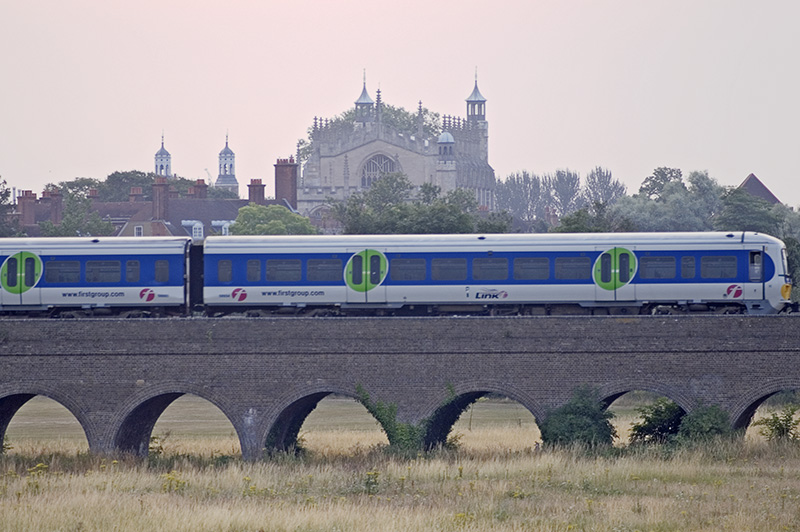 Brick viaduct for the GWR branch line to Windsor passes in front of eton College Source: WyrdLight .